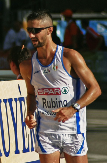 Giorgio Rubino runs in the 20 kilometers march final at the Barcelona 2010 European Athletics Championships.